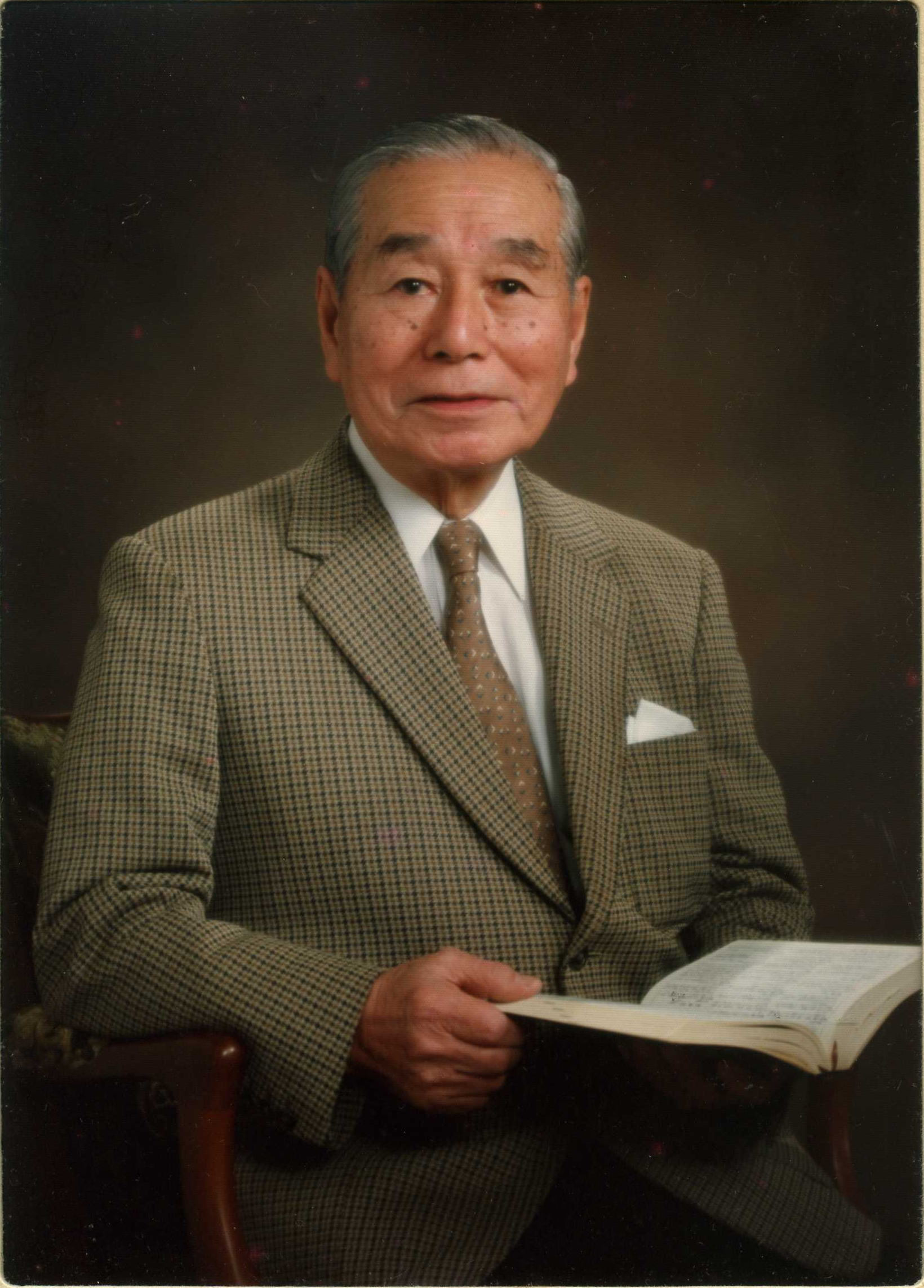 Keiiti Simamoto Father of the glider pilot Shimamoto Makoto